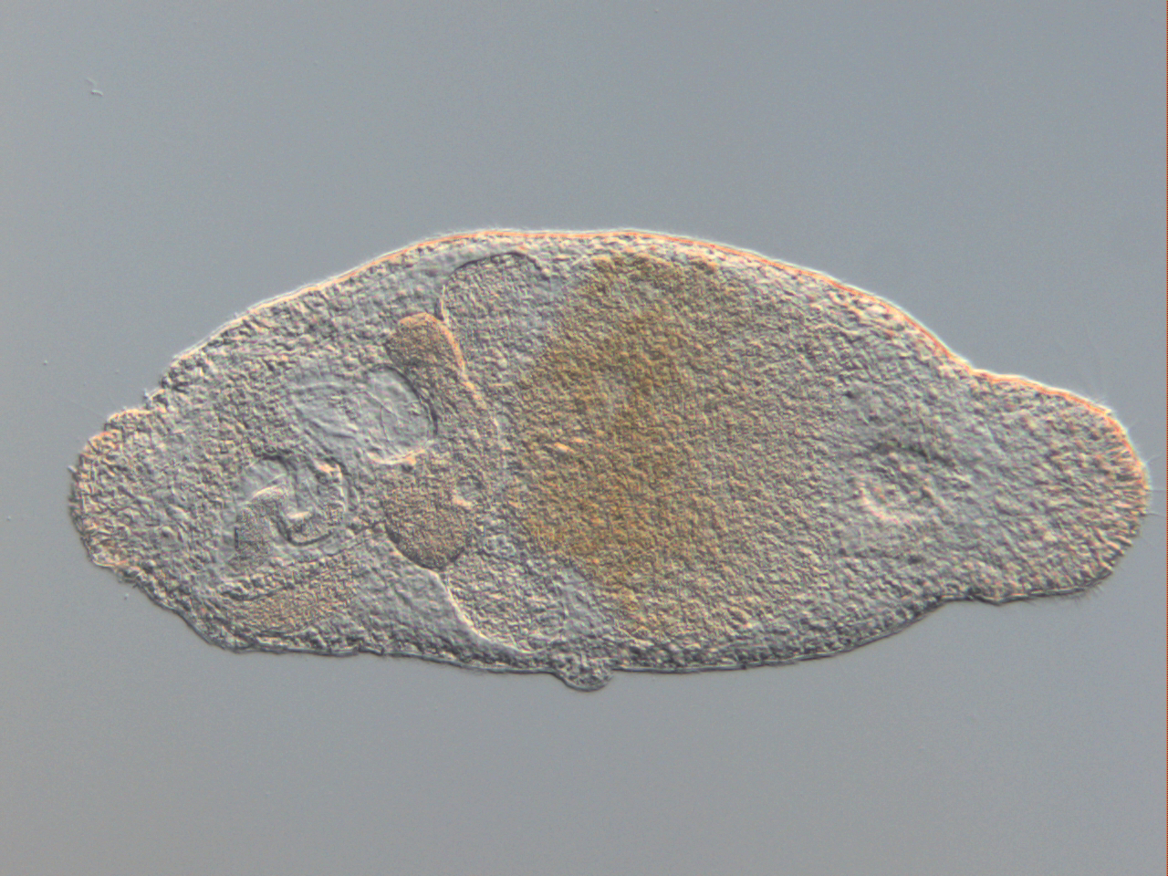 A digital photomicrograph of a living Antromacrostomum armatum, collected in Sylt, Germany (for details